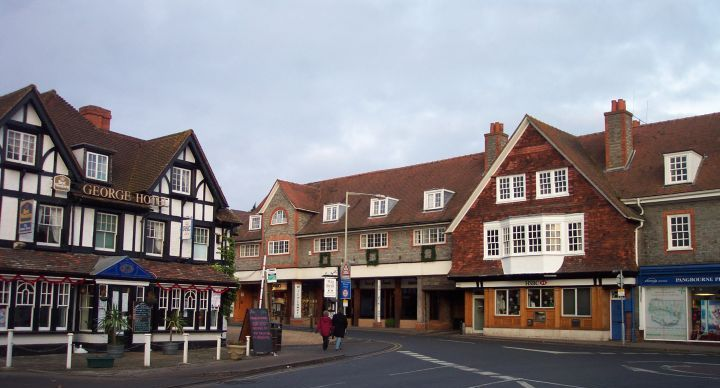 The village centre, Pangbourne, Berkshire, England. For more information, see Wikipedia article Pangbourne.